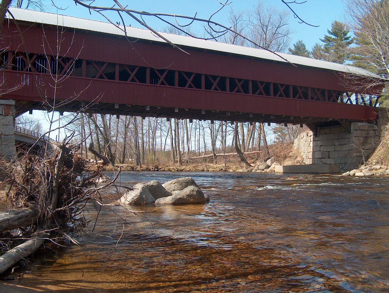 Swift River Bridge (1869) over Swift River, Conway, New Hampshire. Photo by Ken Gallager, April 2005.